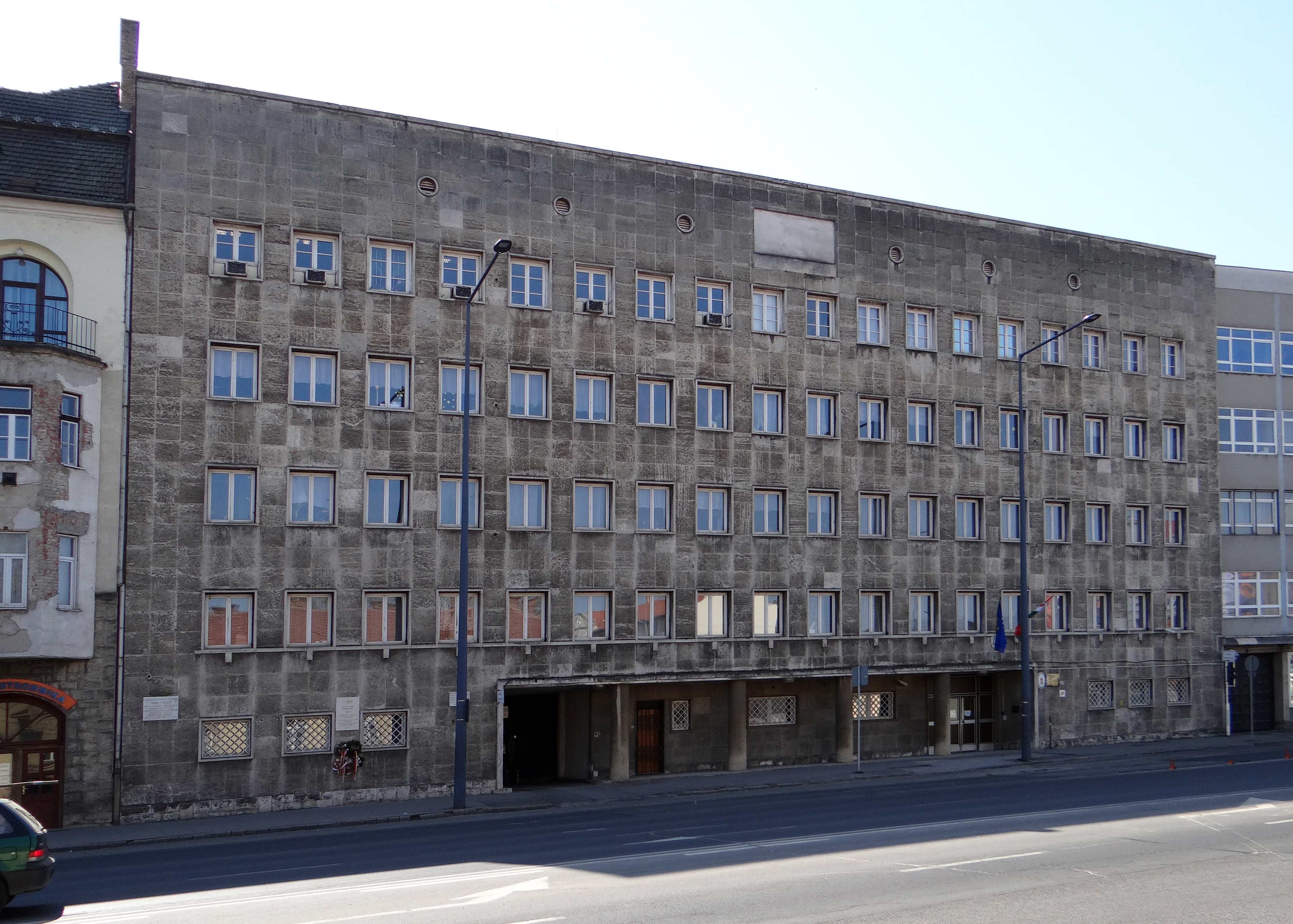 County Police Headquarters, Miskolc, 32 Zsolcai kapu, Hungary